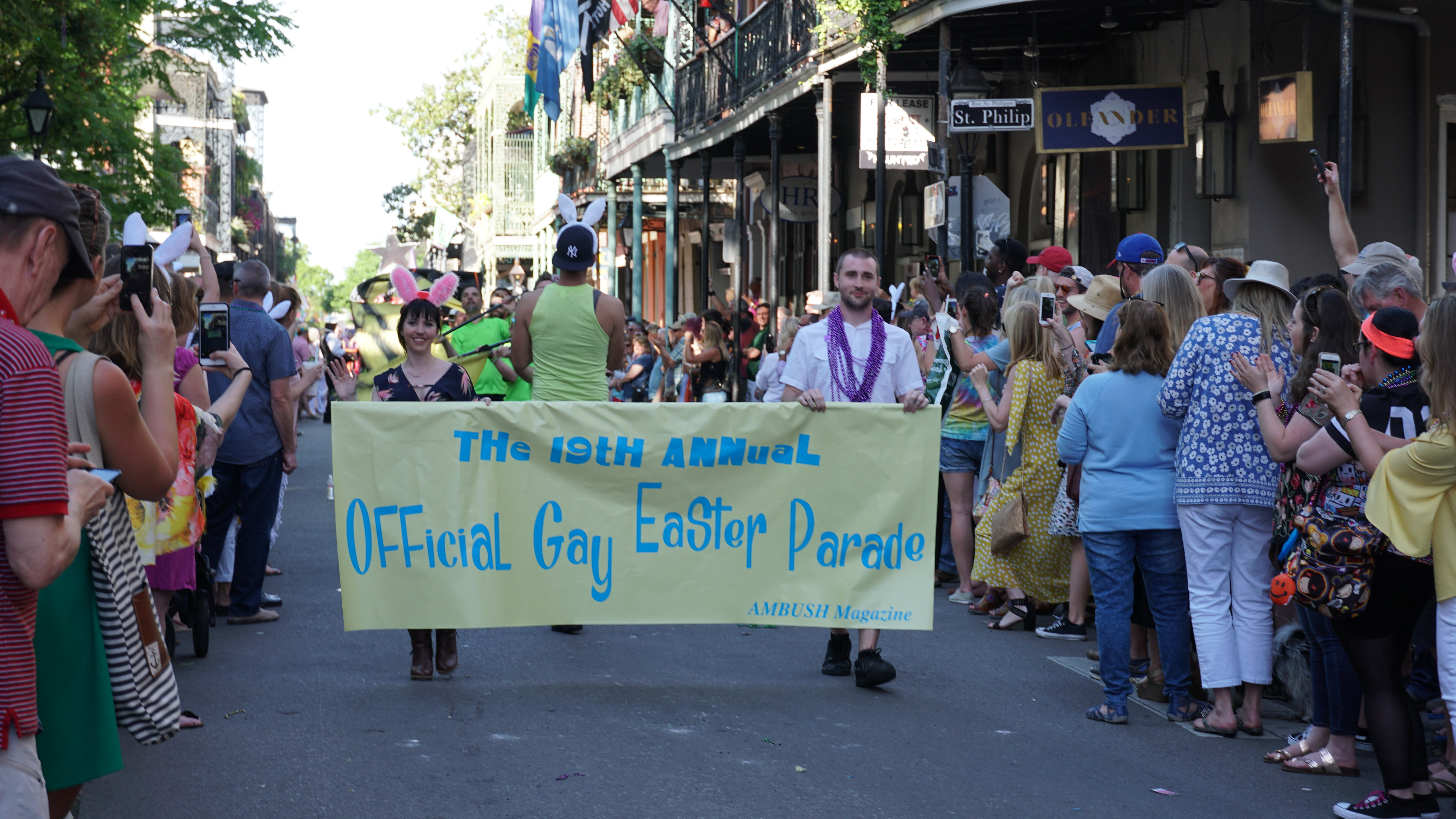 NOLA 2018 - Easter Sunday Parades: The French Quarter's Gay Easter Parade.